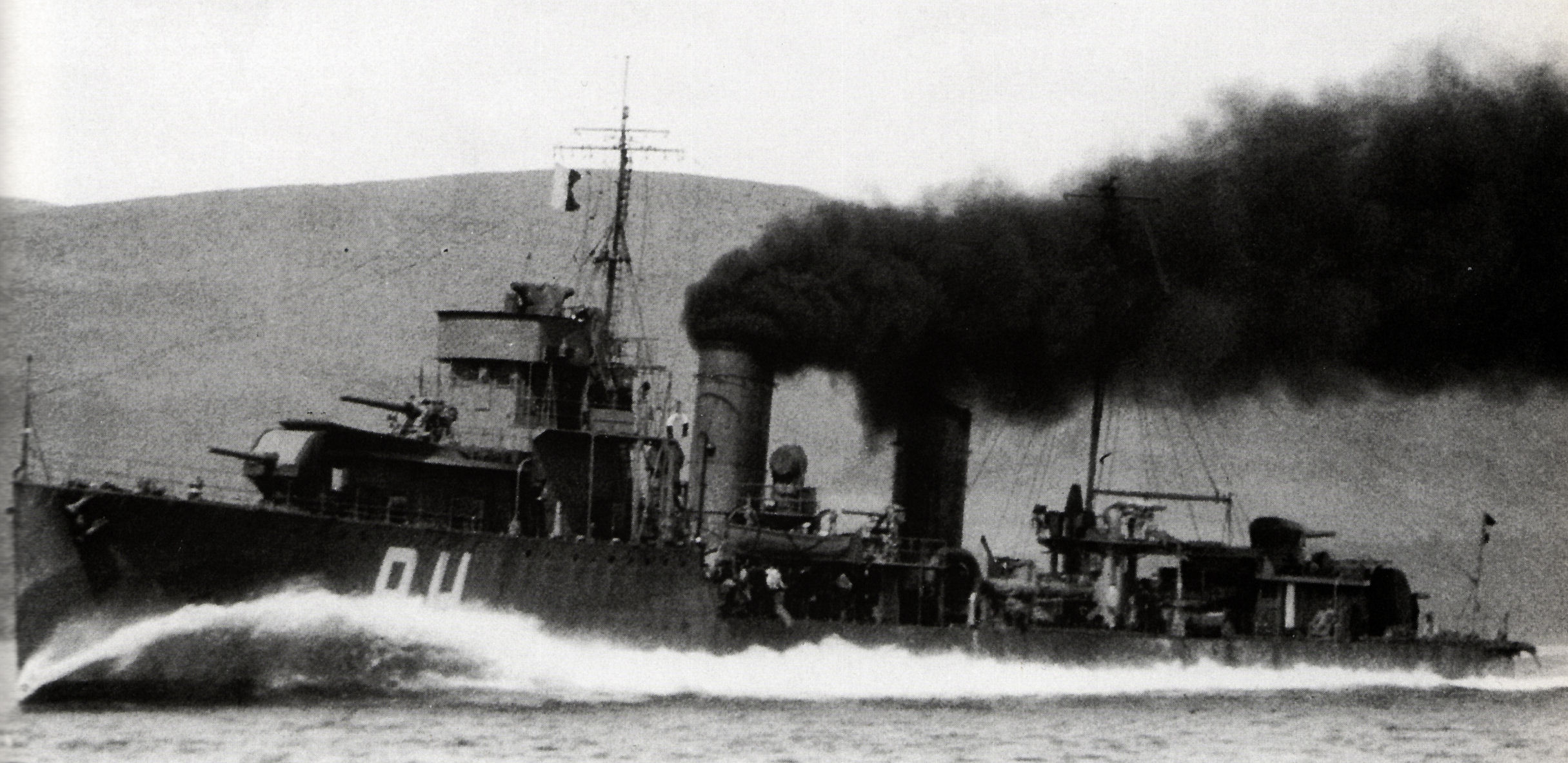 Dutch Amdiralen-class destroyer Piet Hein during a fullspeed trial in the Dutch Indies